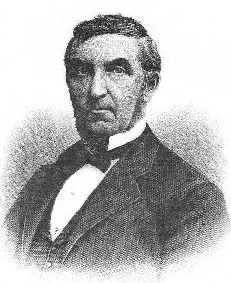 Milo Goodrich, Congressman from New York